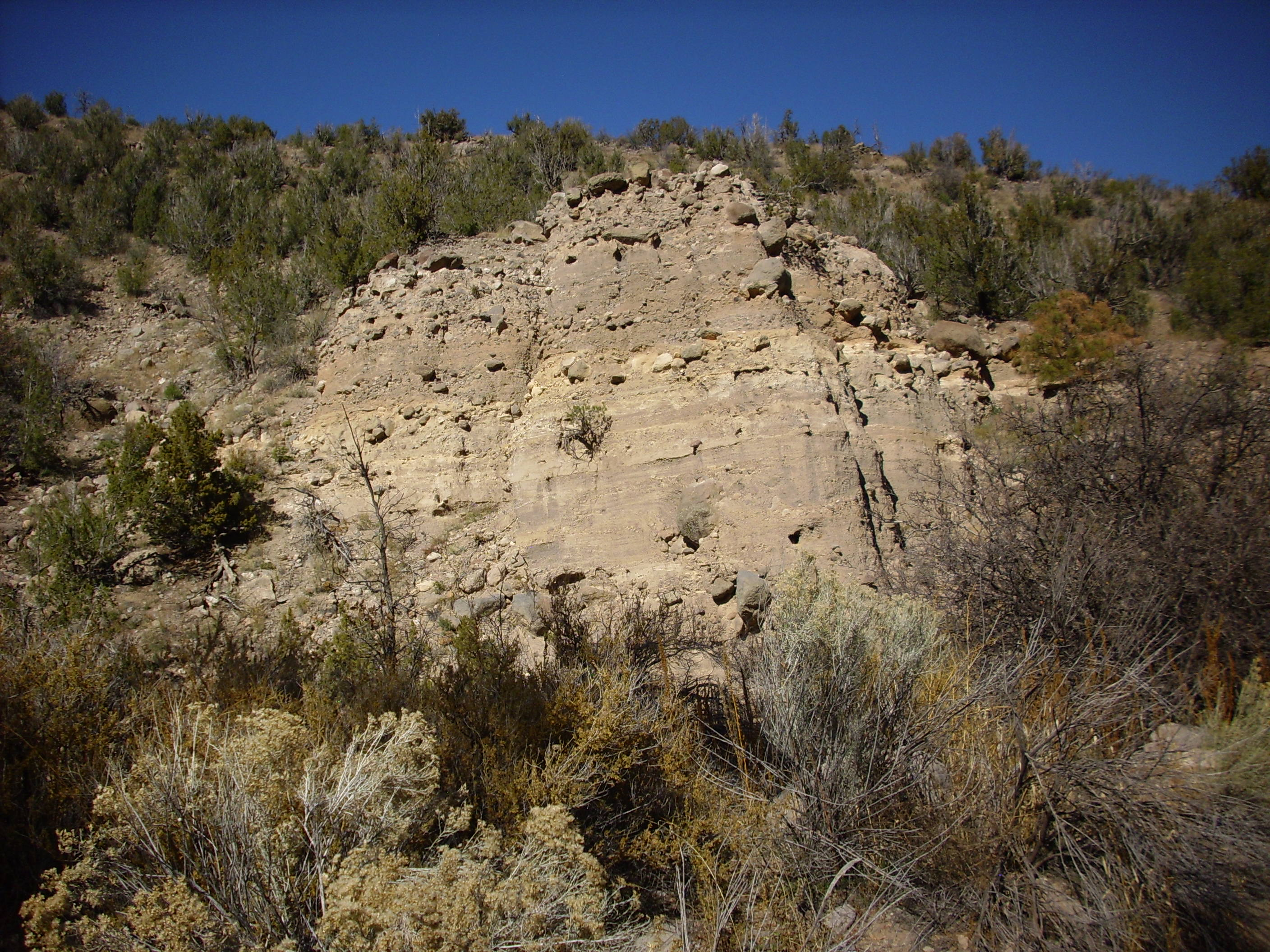 This image shows outcrops of the Puye Formation, a Neogene fanglomerate, in Rendija Canyon north of Los Alamos, New Mexico, USA.